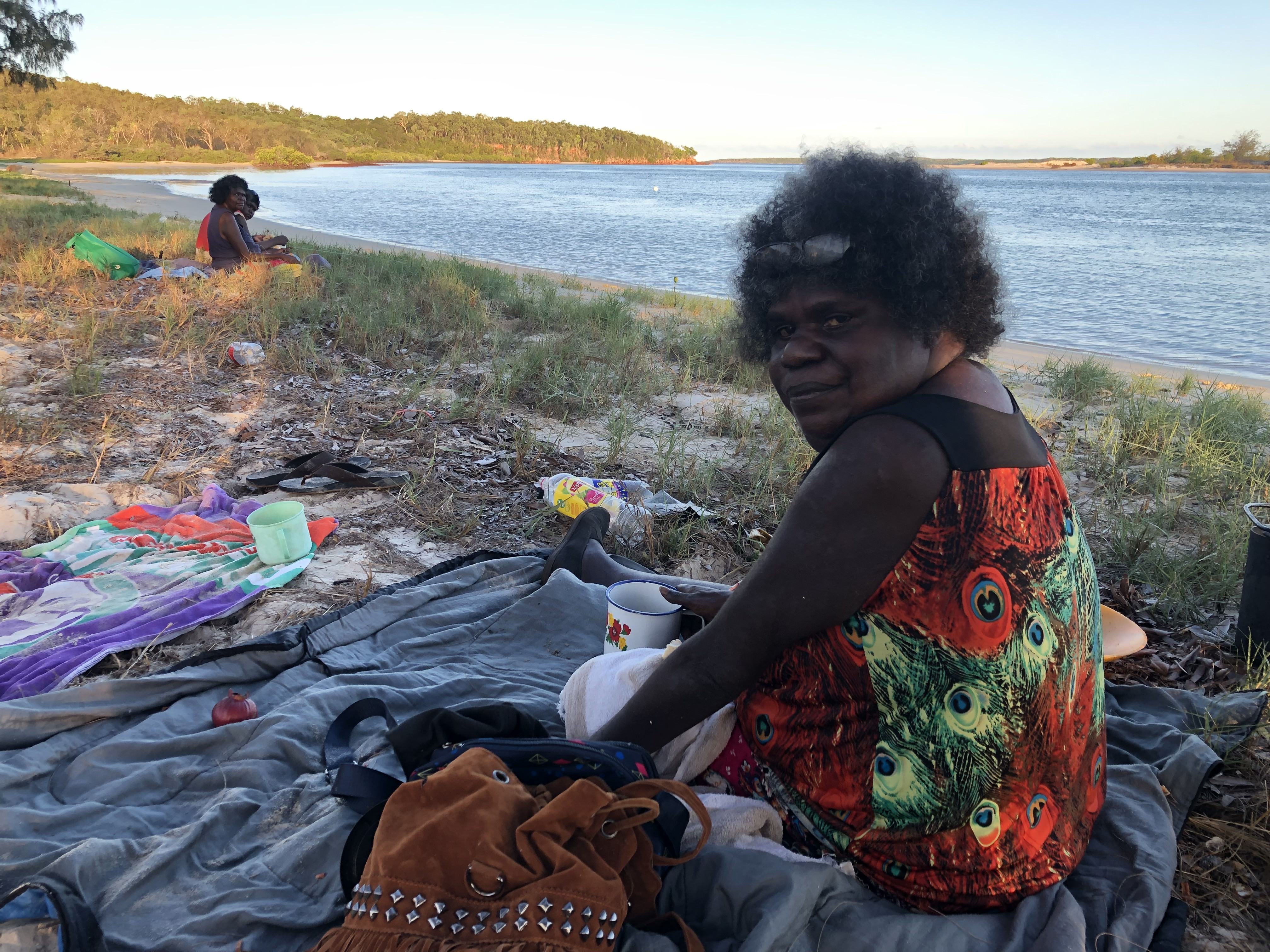 The artist Marrnyula Mununggurr at Binydjarrnga (Daliwuy Bay), December 2018. Photograph by Henry Skerritt.